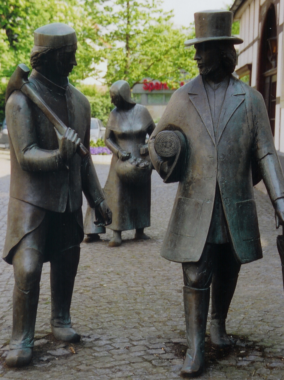 Sculpture group (left to right: miner, farmer and Tüötte [merchant]), a work of Anne Daubenspeck-Focke (1988), at Haus Telsemeyer in Mettingen, North Rhine-Westphalia, Germany.